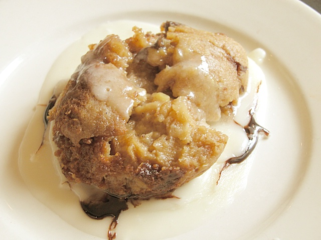 Creole Bread Pudding with Vanilla Whiskey Sauce, from Pampy's Restaurant in New Orleans, Louisiana (2005). Photo courtesy of Jason Perlow